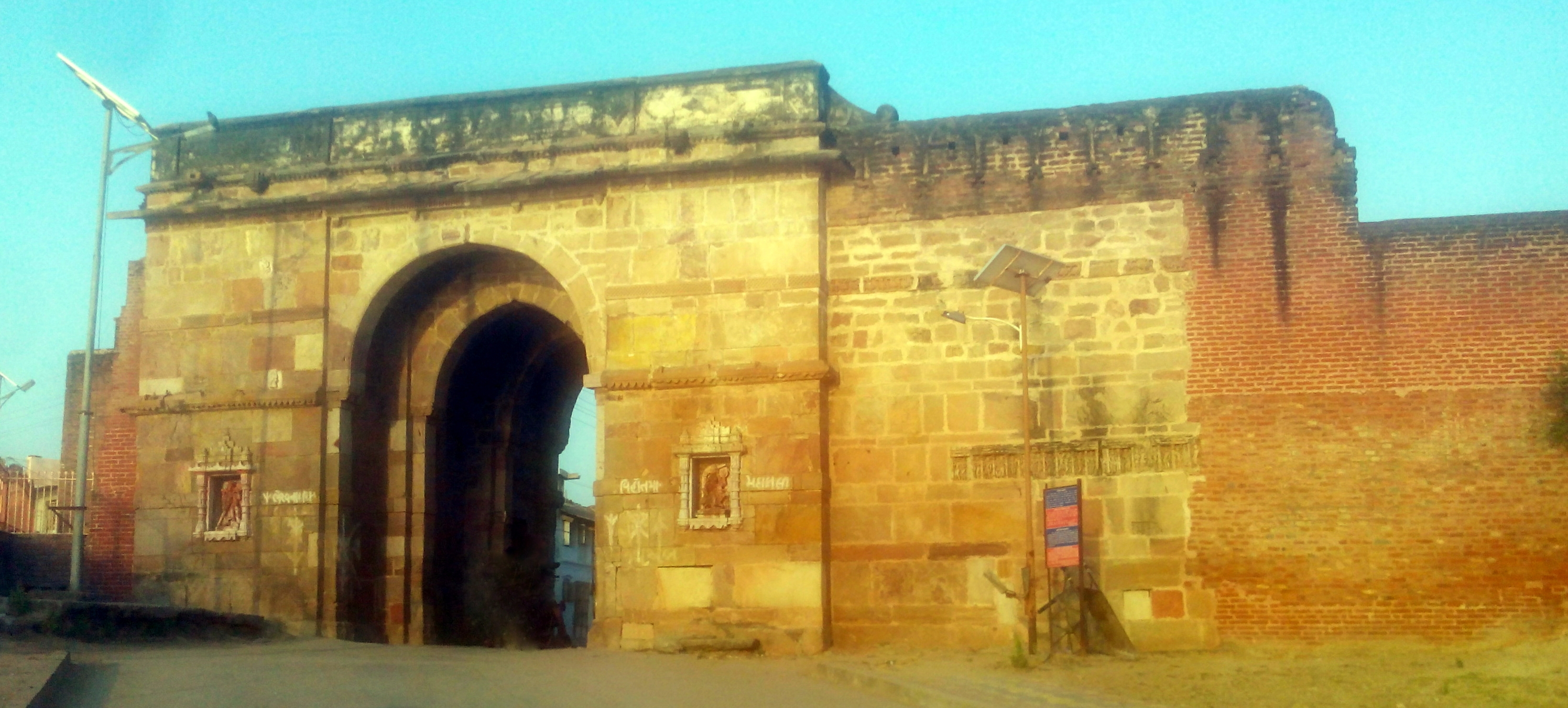 Arjun Bari Gate of Vadnagar, Gujarat, India